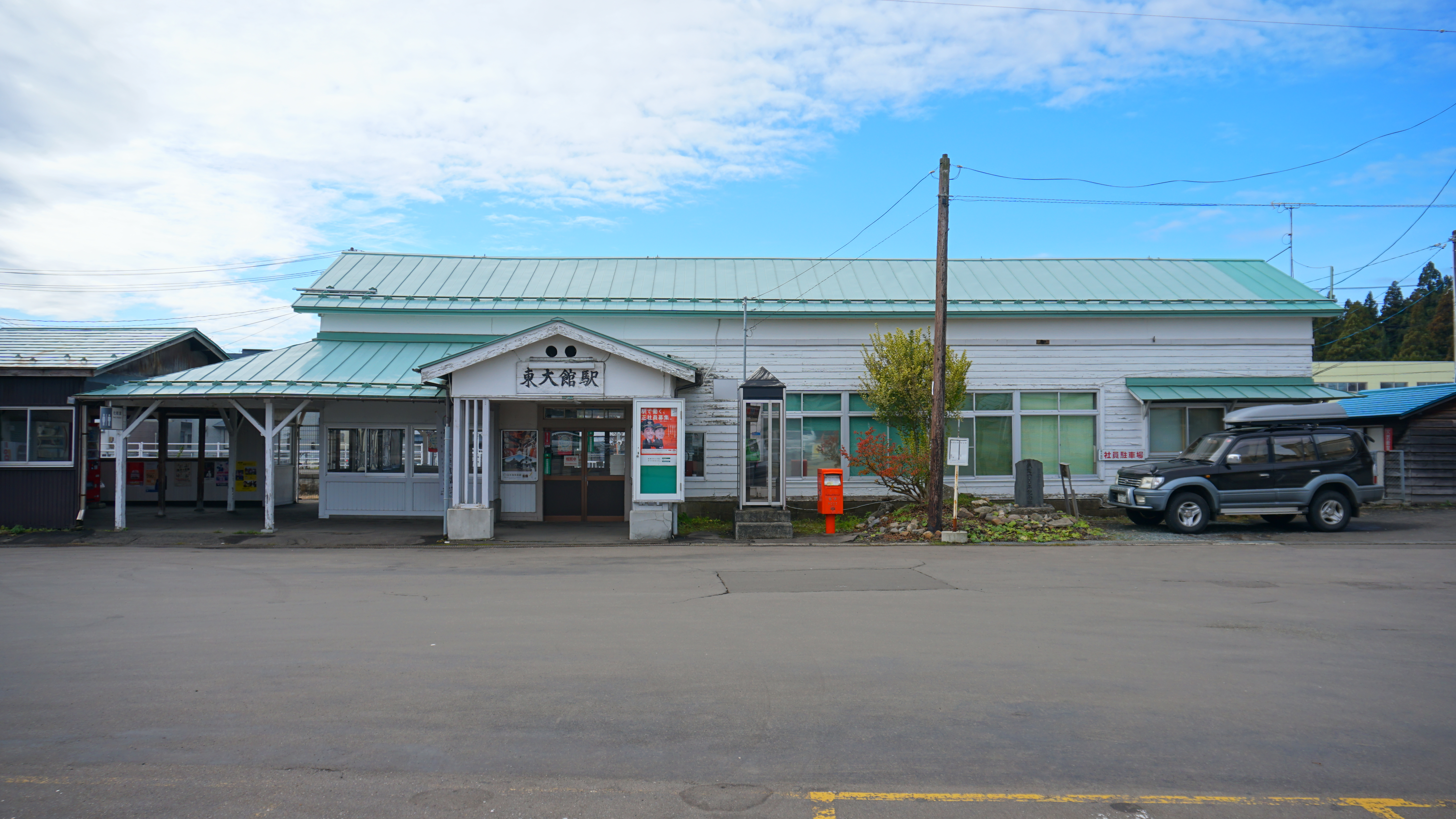 Higashi-Ōdate Station on the Hanawa Line, in Odate, Akita, Japan